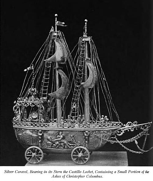 Silver Caravel, Bearing in its Stern the Castillo Locket, containing a small portion of Christopher Columbus Ashes.